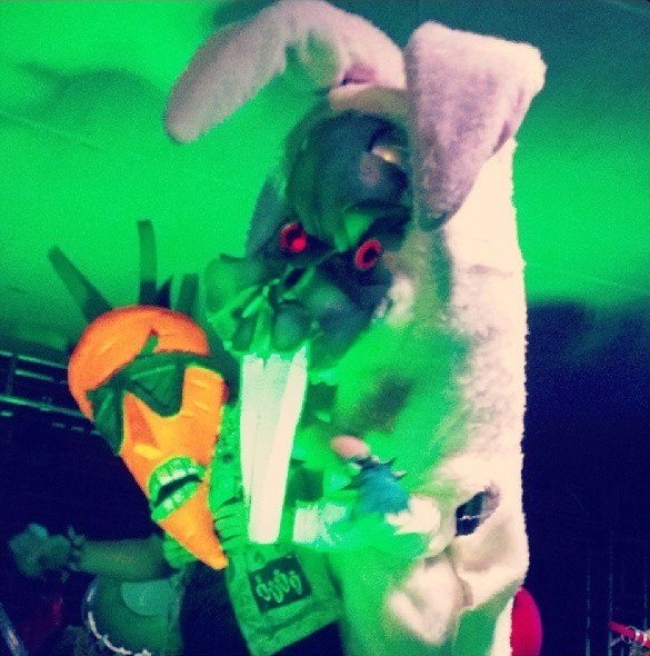 A photograph of punk rock band The Radioactive Chicken Heads performing at the Long Beach Zombie Walk in Long Beach, California on October 25, 2013.